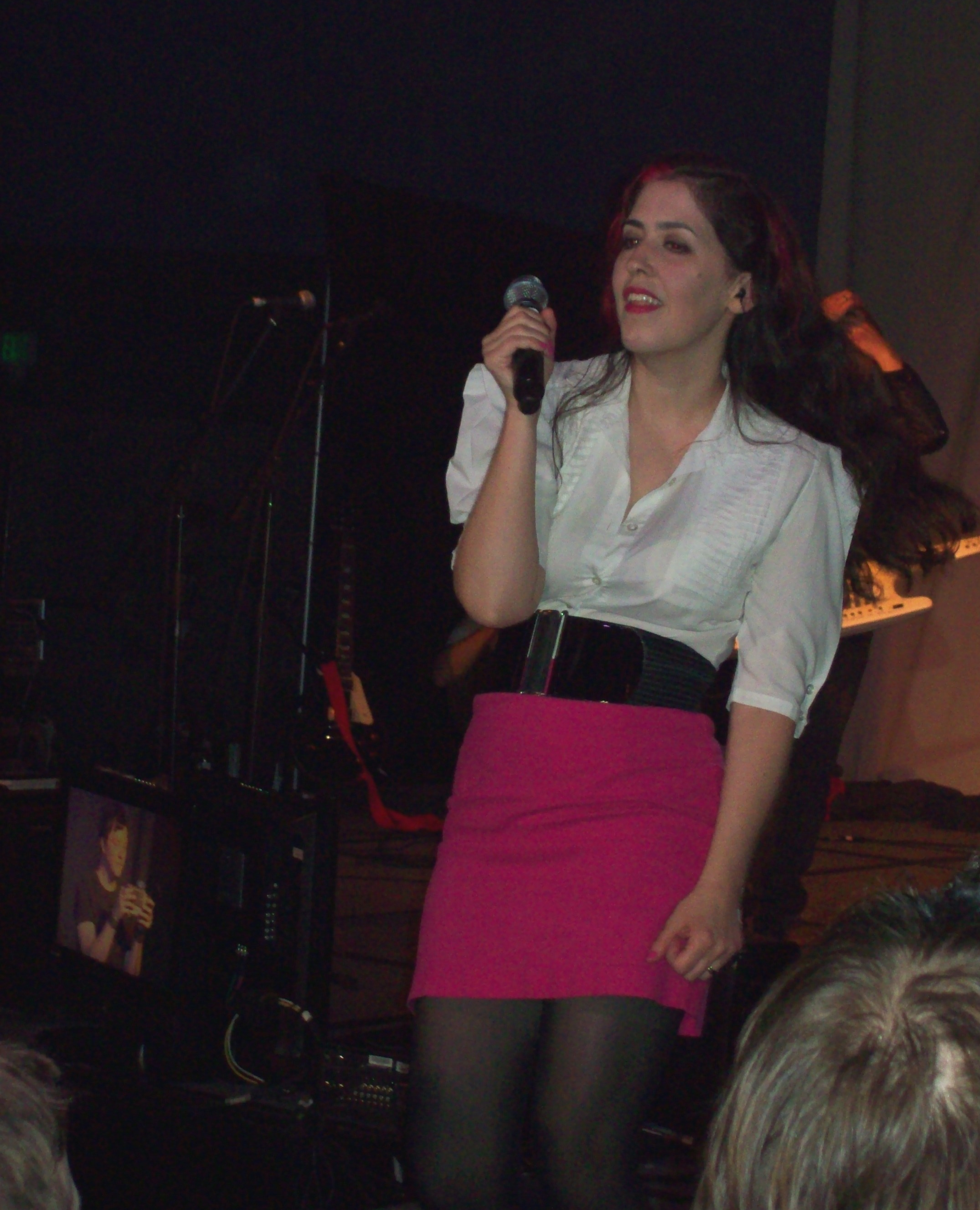 Liz Enthusiasm, lead singer of Freezepop, performs at PAX 2009. The Duke is shown in the monitor, lower left.